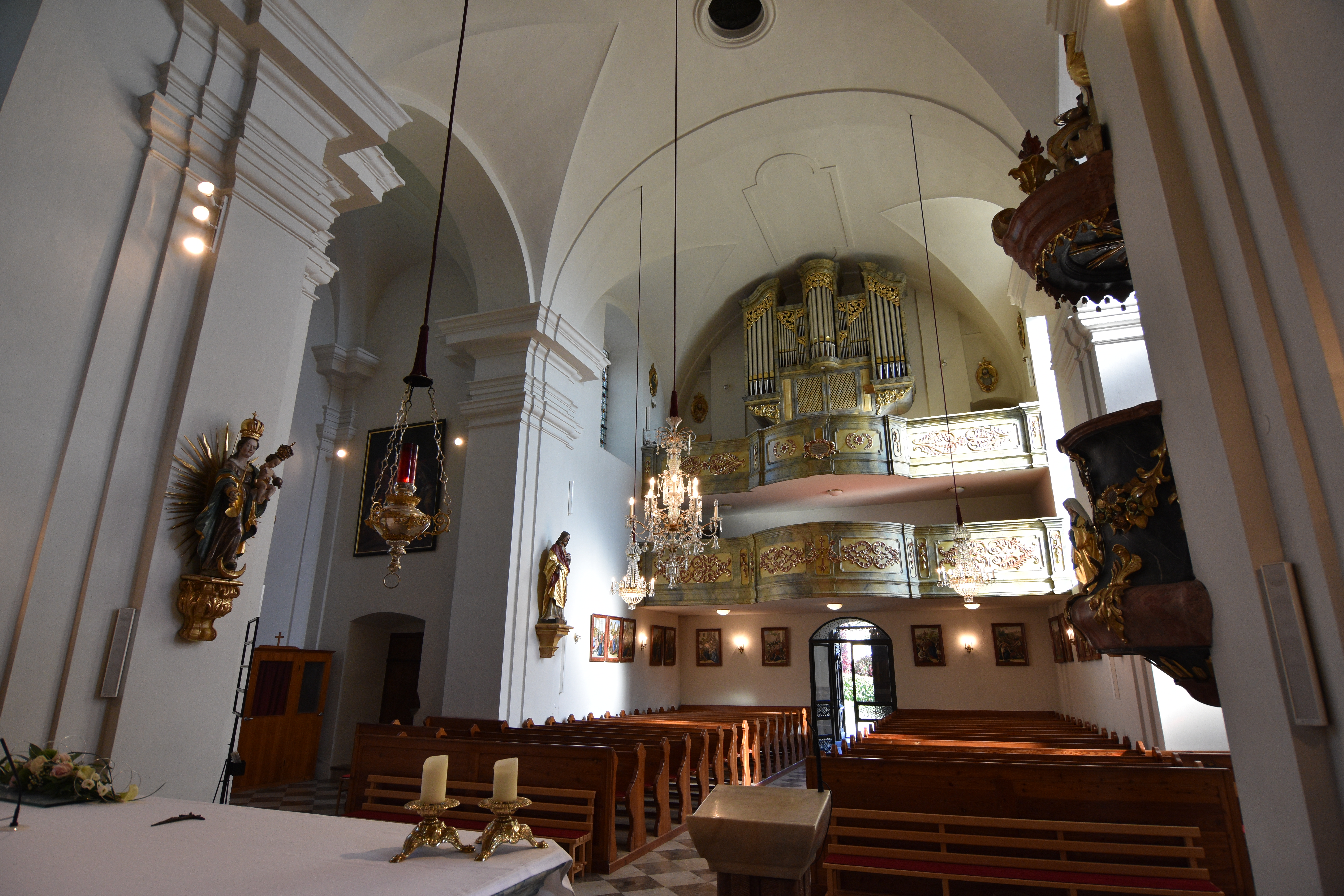 Pfarrkirche hl. Laurentius, Sankt Lorenzen am Wechsel - Interior